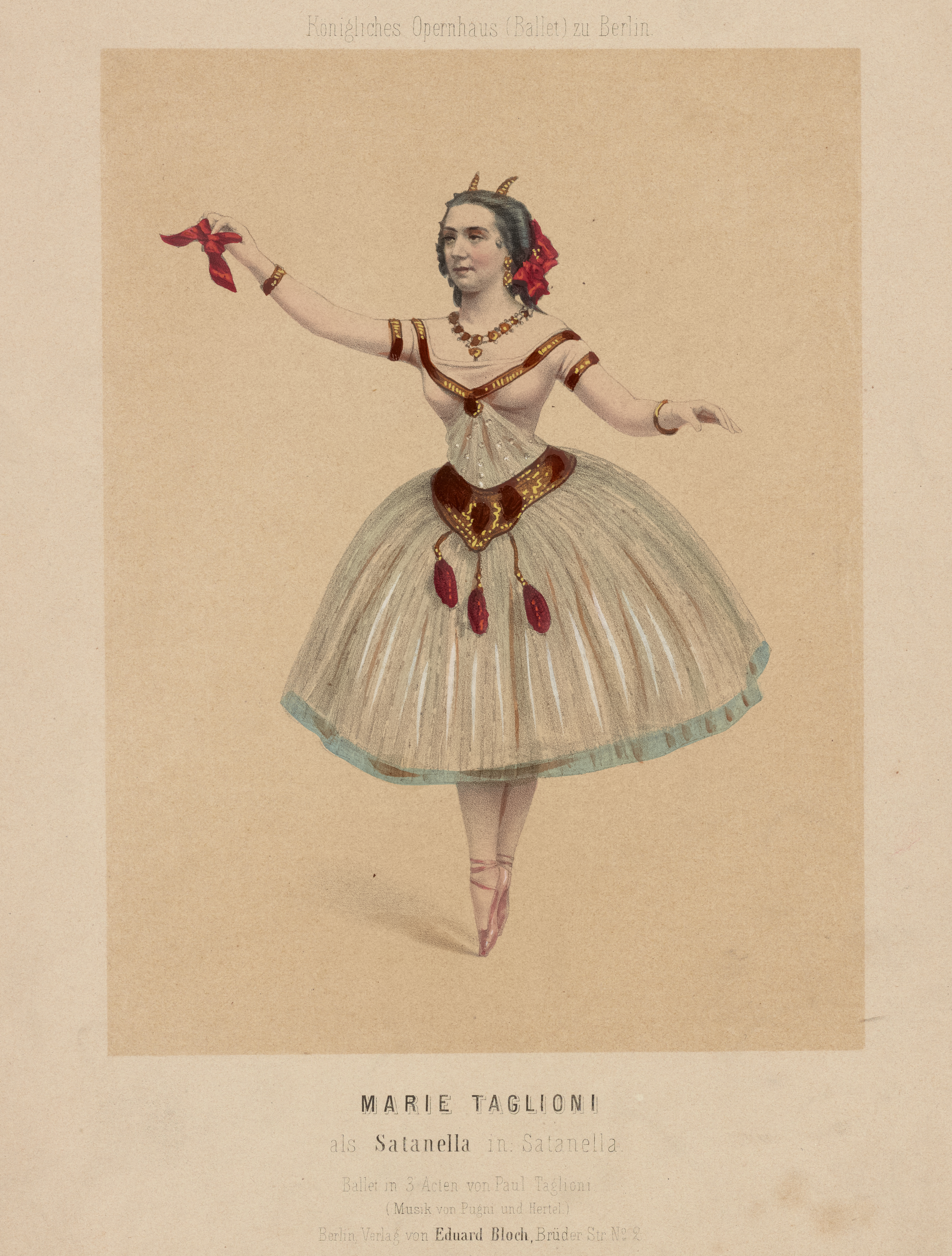 Marie Taglioni in Satanella, a Ballet in 3 Acts choreographed by Paul Taglioni, with music composed by Pugni and Hertel